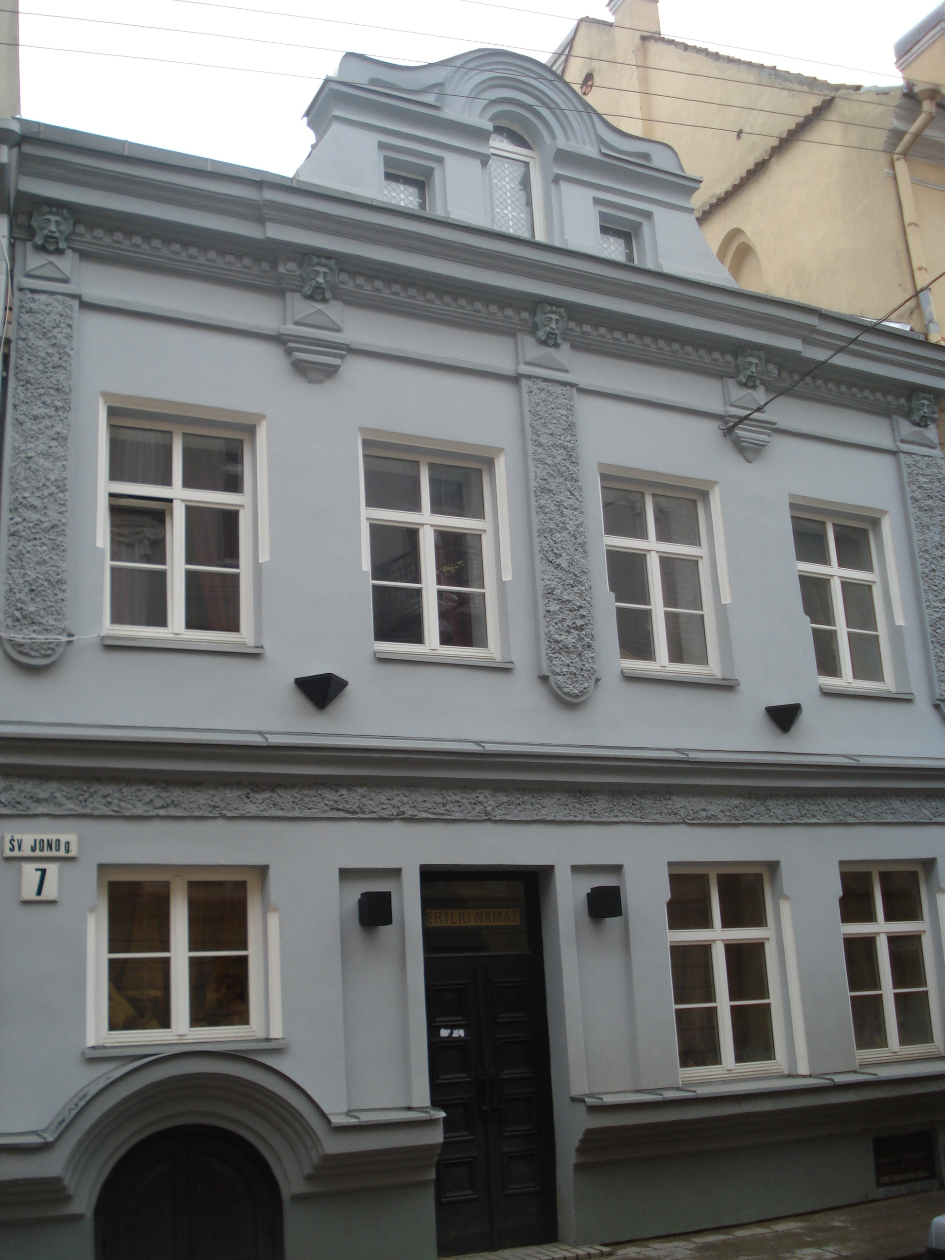 The house of Georg Hertl. Švento Jono g. 7